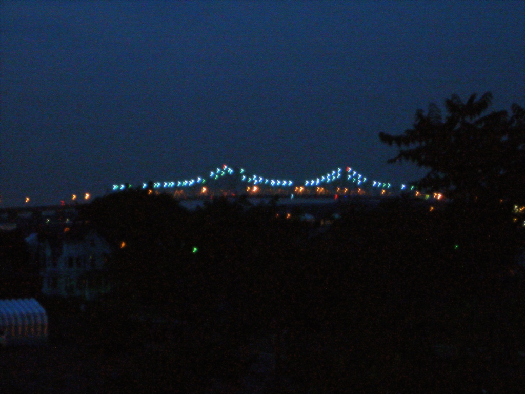 The Outerbridge Crossing, at night. The bridge leads Route 440 from Perth Amboy across the Arthur Kill into Staten Island, NY